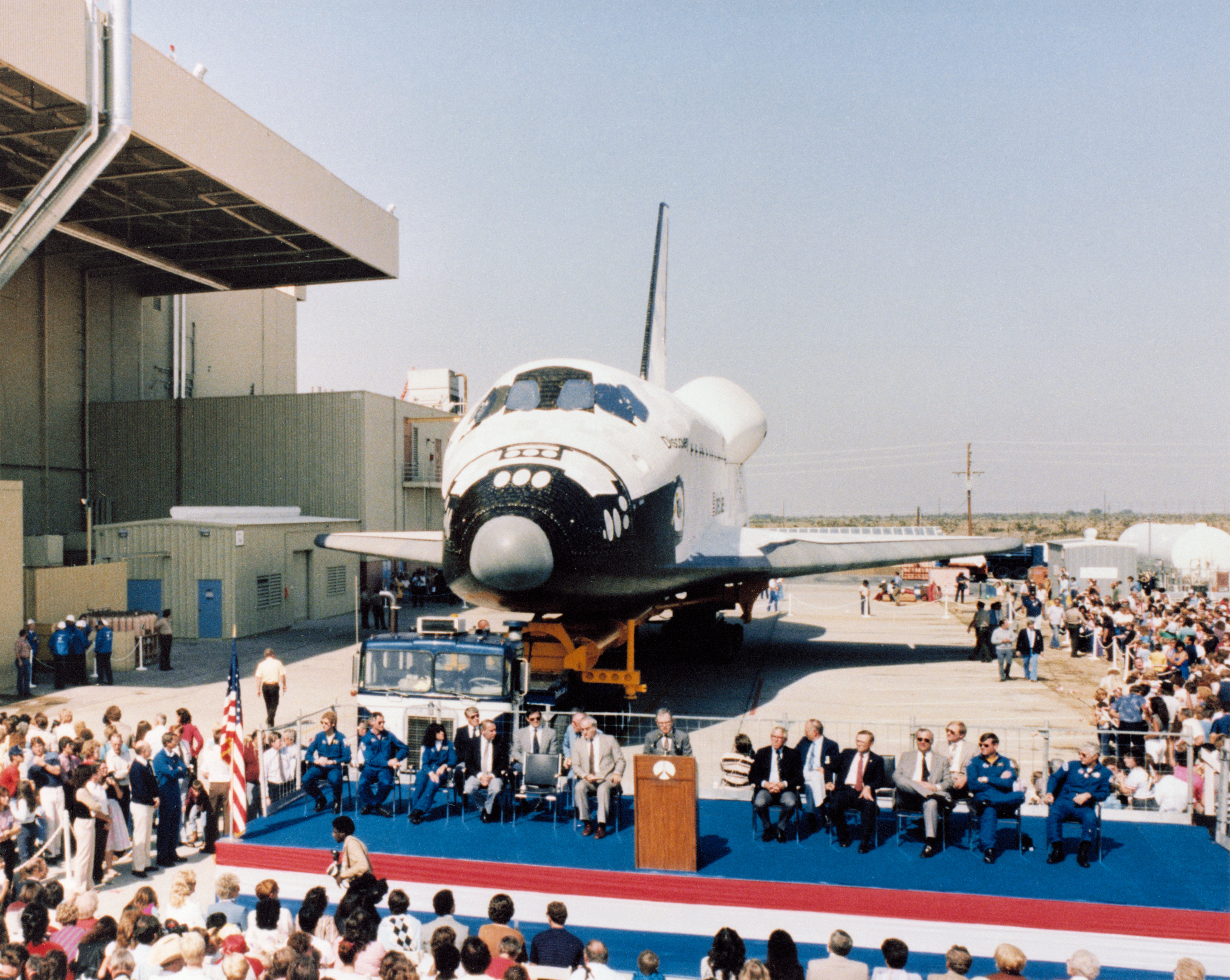 View of the OV-103 shuttle Discovery rollout ceremony at Palmdale, CA. with the space shuttle mission 41-D crew (all on stage), Rockwell and NASA dignitaries, employees and visitors. The orbiter is positioned behind a reviewing stand with Don Beall of Rockwell (at lectern) introducing Dr. Rocco A. Petrone, the president of the company. Image ID: S84-30898